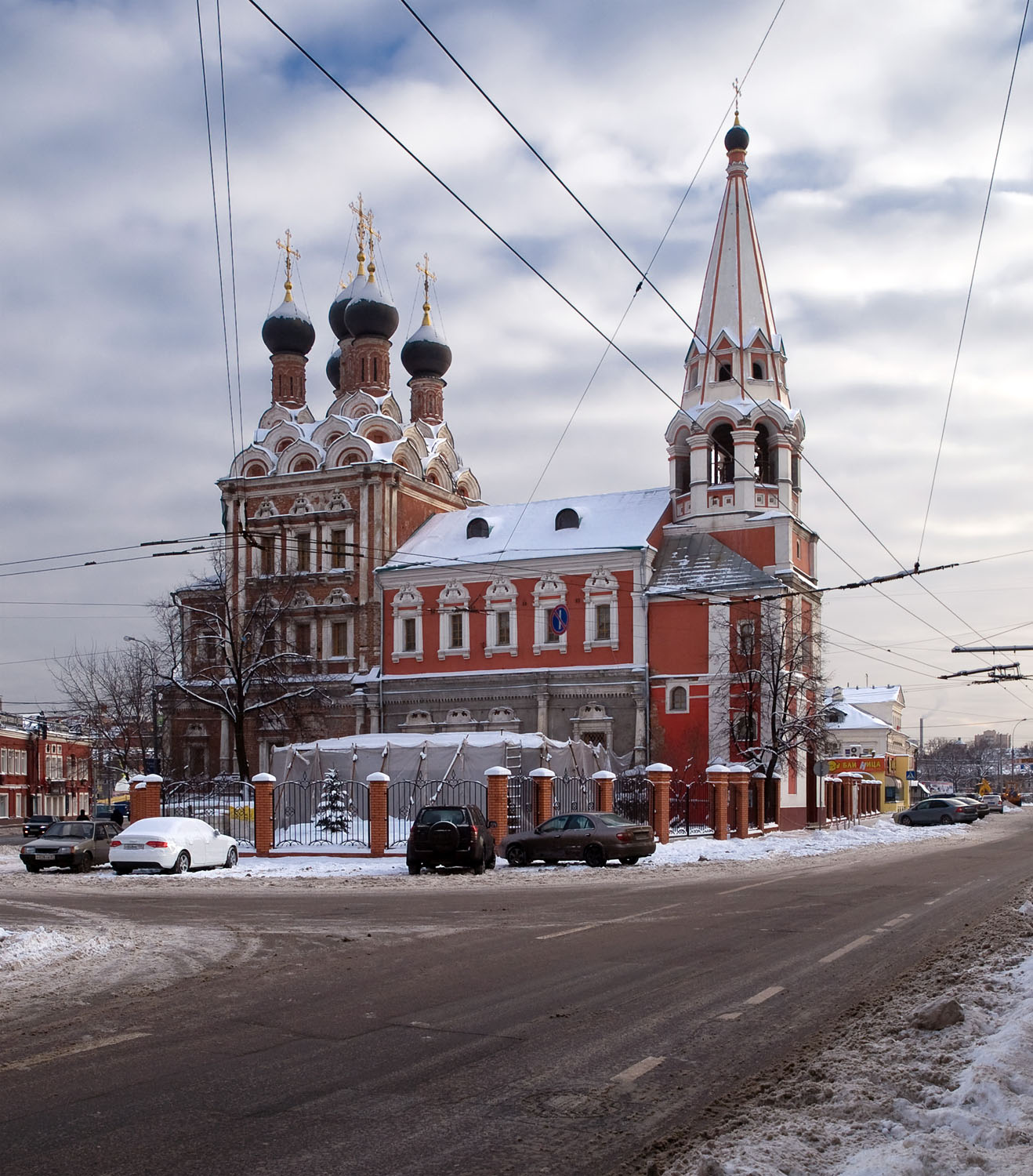 Verkhnaya Radischevskaya Street, Moscow - St. Nicholas church.